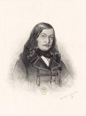 Portrait of Theophile Gautier